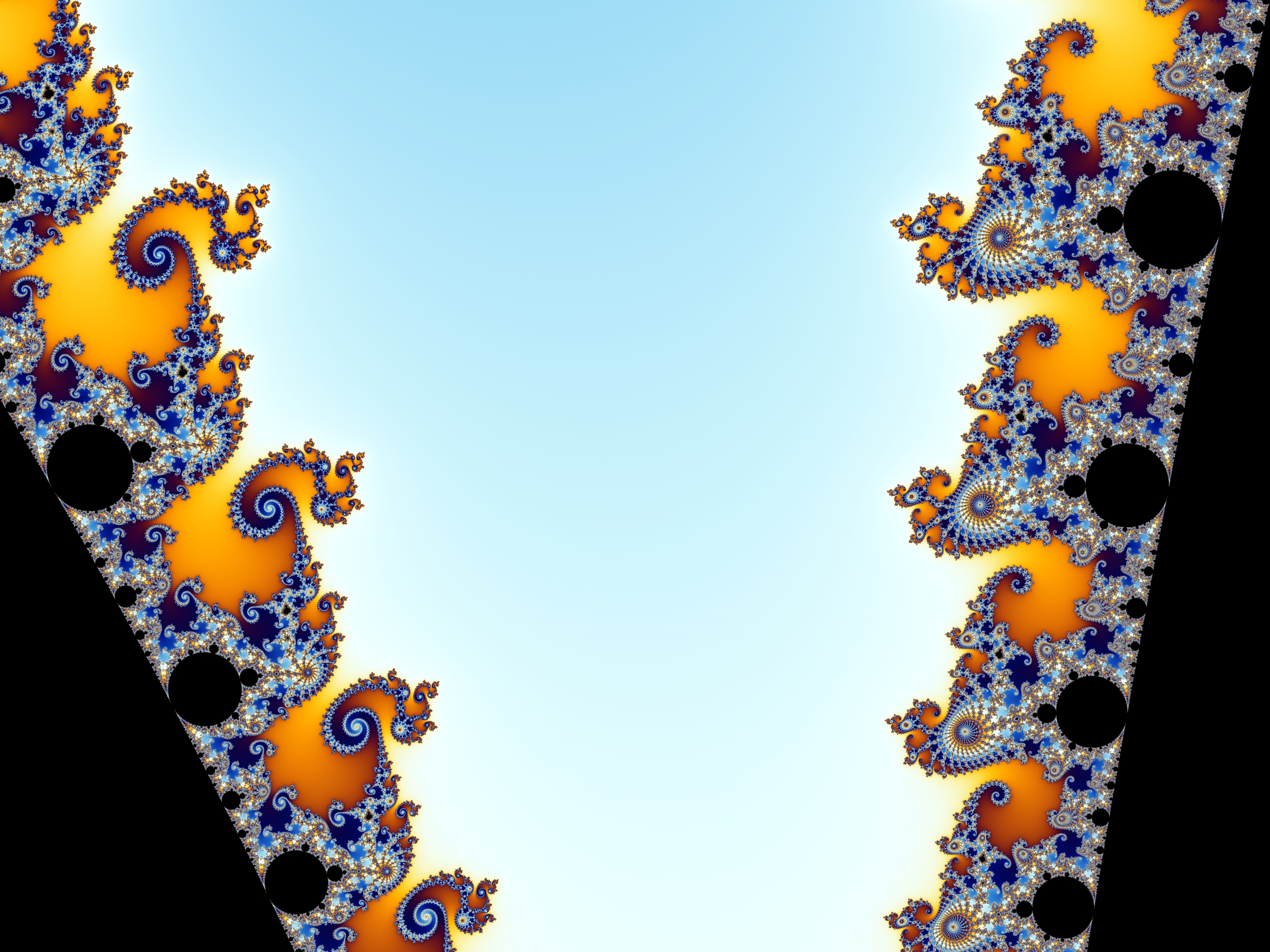 Partial view of the Mandelbrot set. Step 2 of a zoom sequence: On the left double-spirals, on the right "seahorses". Coordinates of the center: Re(c) = -.759,856, Im(c) = .125,547 Horizontal diameter of the image: .051,579 Magnification relative to the initial image: 59,654 Created by Wolfgang Beyer with the program Ultra Fractal 3. Uploaded by the creator.